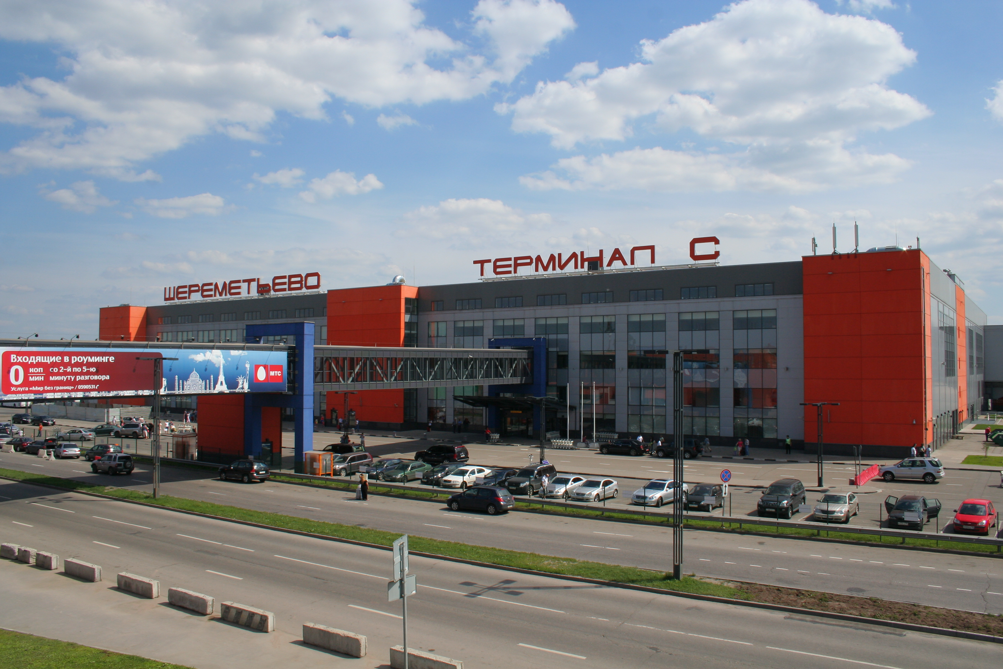 Sheremetyevo Airport of Moscow. Terminal C. View outside.